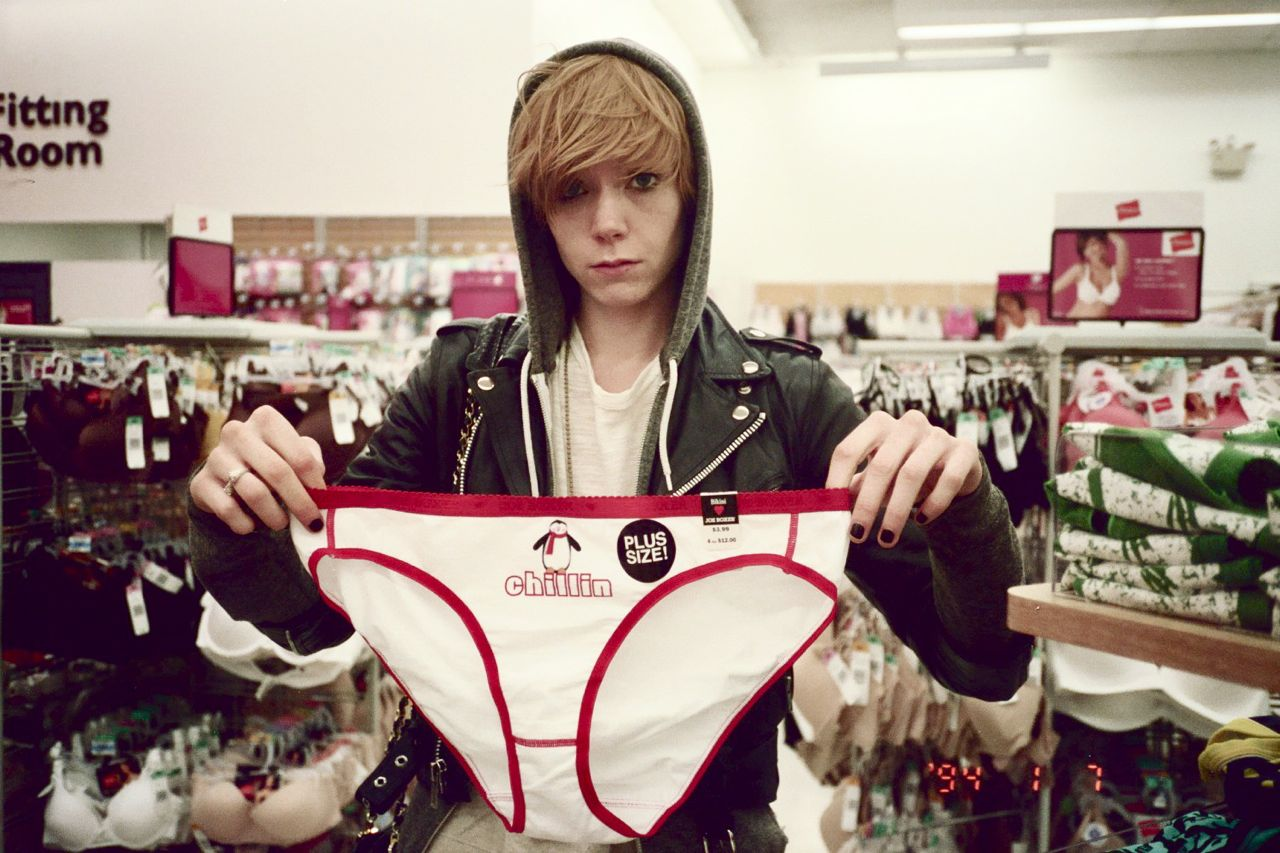 Singer Lissy Trullie in Fan the Fire Magazine.